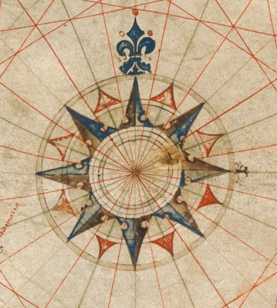 Detail of a compass rose, from the Portuguese nautical chart by Pedro Reinel, c. 1504